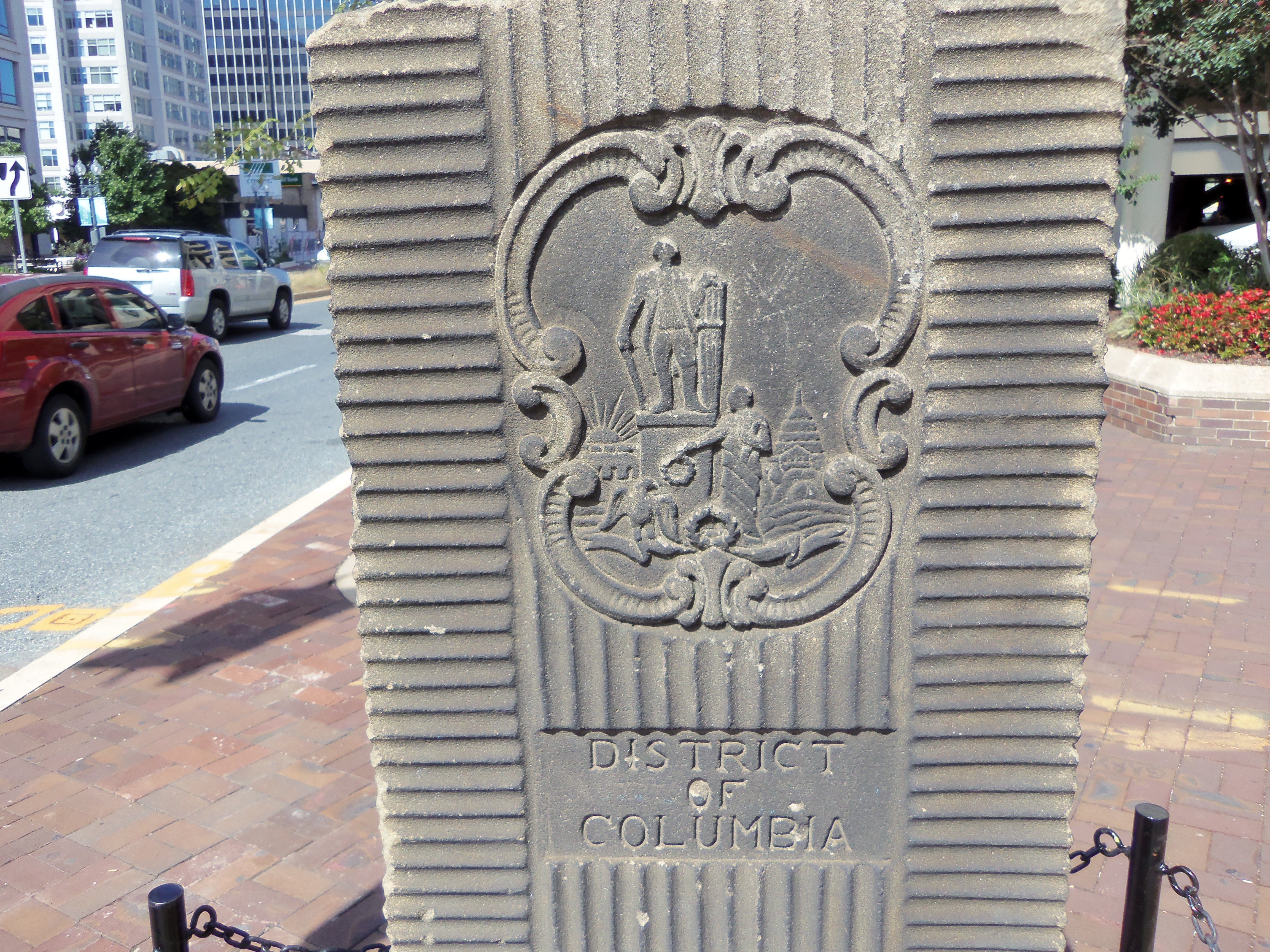 The Cartouche of the District of Columbia found on the Garden Club of America entrance marker. This particular depiction is from the marker on the north side of Wisconsin Ave. NW at Chevy Chase, Maryland.